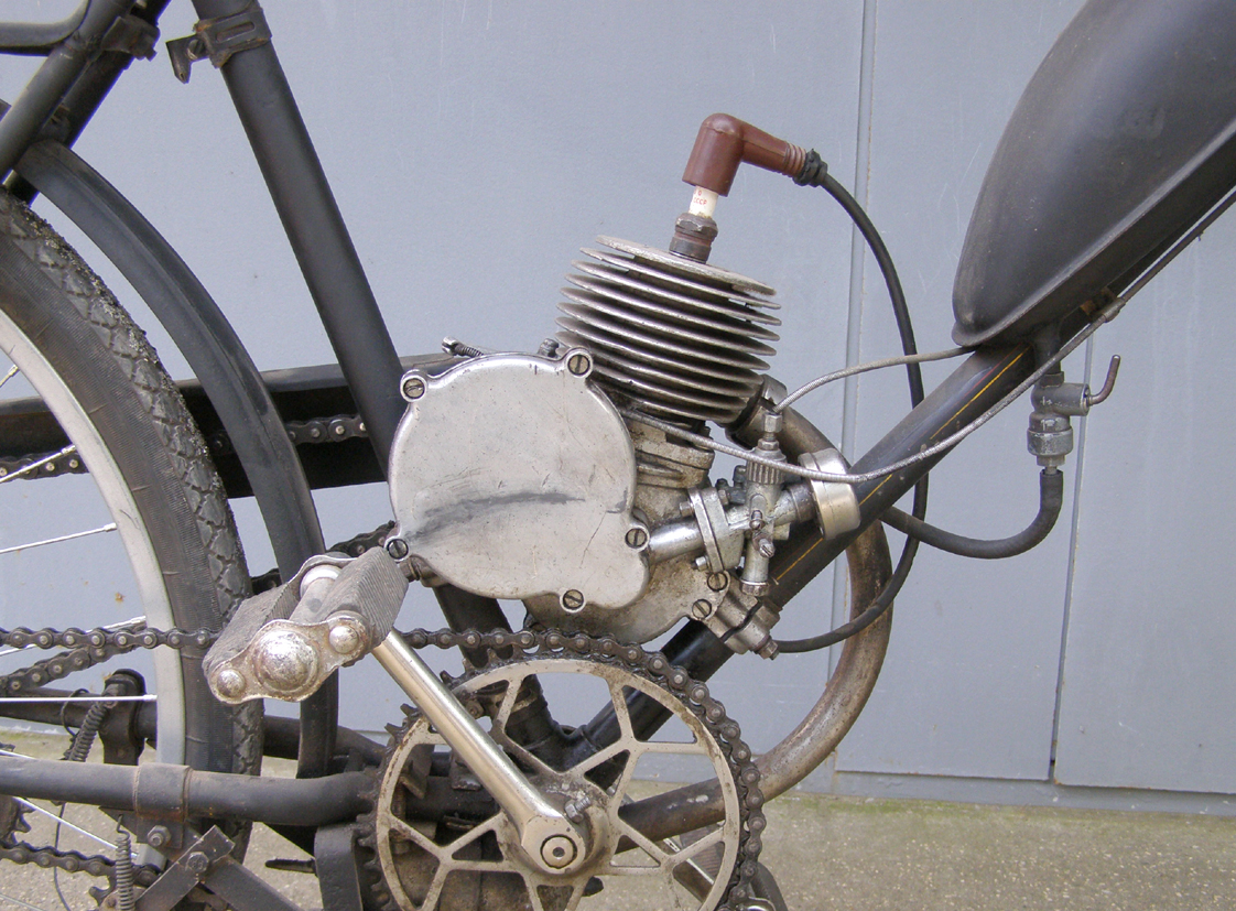 "D-4" - Soviet kit engine of "D" series